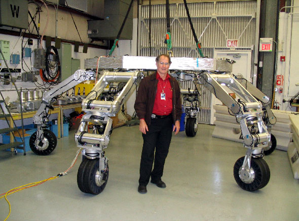 The ATHLETE robotic rover prototype, pictured with Brian Wilcox